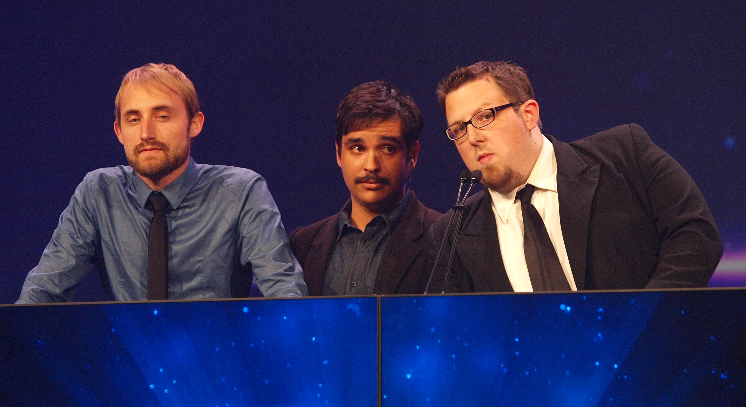 The crew of Mega64 (Shawn Chatfield, Derrick Acosta, and Rocco Botte) on stage at the Game Developers Choice Awards 2010 (GDCA), which is a part of Game Developers Conference (GDC).